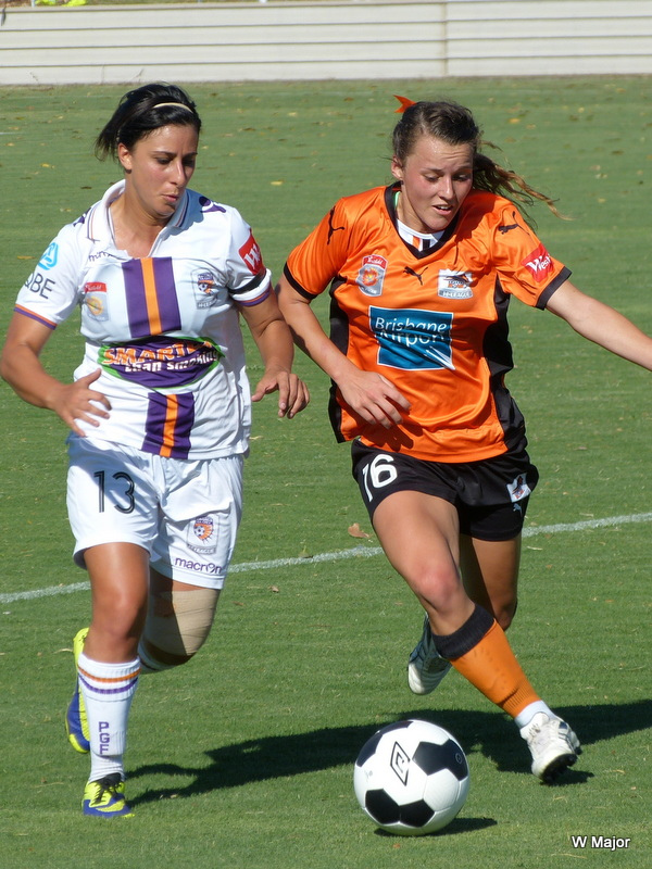 Perth Glory Women (Elisa D'Ovidio #13 - left side) versus Brisbane Roar Women (Hayley Raso #16 - right side)